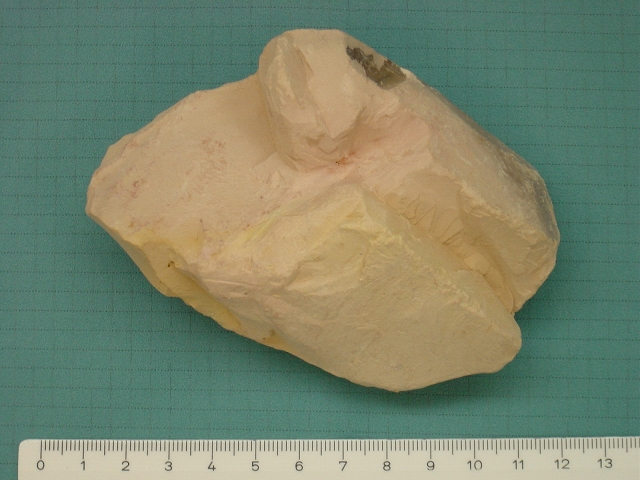 Chalky composed of kaolinite with traces of quartz ingested (suckled) by a patient with pica. Scale in centimeters.